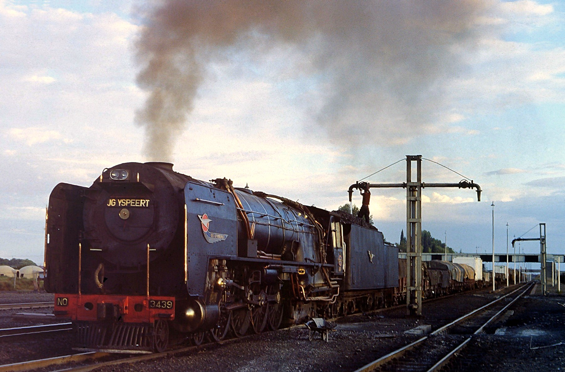 Number 3439, a steam locomotive of the powerful class 25NC at Orange River/Oranje Rivier station in front of a heavy goods train. Taking water has just finished. Soon the loco will run its northbound train to Kimberley.